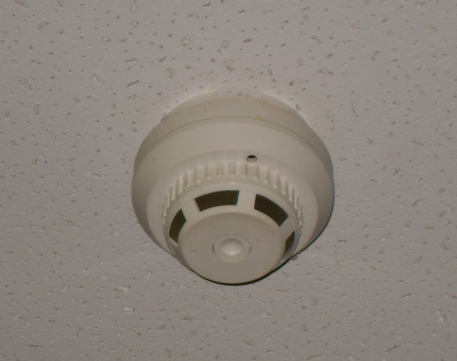 Smoke detector